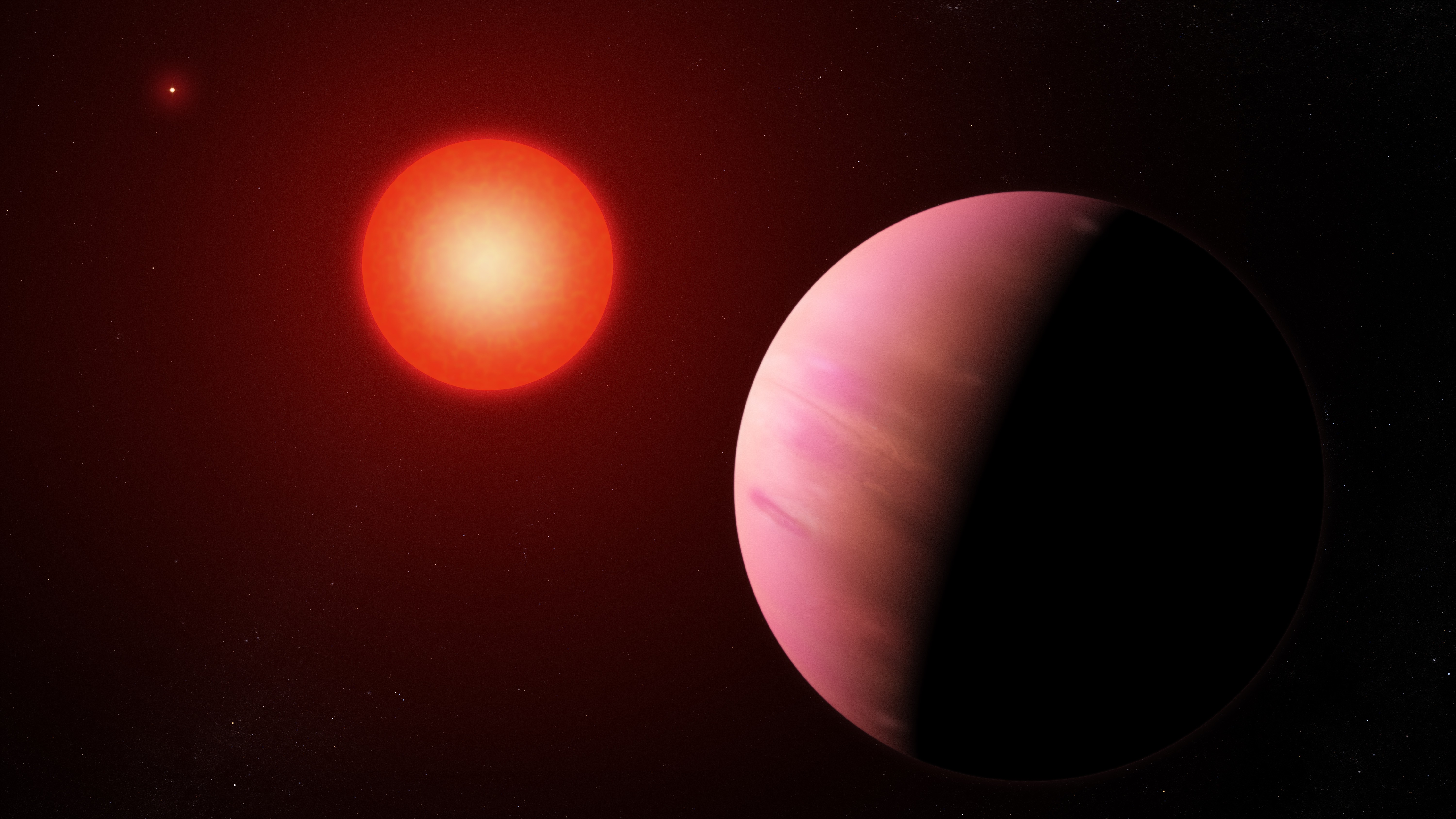 The newfound planet K2-288Bb, illustrated here, is slightly smaller than Neptune. Located about 226 light-years away, it orbits the fainter member of a pair of cool M-type stars every 31.3 days. NASA's Jet Propulsion Laboratory, Pasadena, California, manages the Spitzer Space Telescope mission for NASA's Science Mission Directorate, Washington. Science operations are conducted at the Spitzer Science Center at Caltech in Pasadena, California. Spacecraft operations are based at Lockheed Martin Space Systems Company, Littleton, Colorado. Data are archived at the Infrared Science Archive housed at the Infrared Processing and Analysis Center at Caltech. Caltech manages JPL for NASA. NASA Ames manages the Kepler and K2 missions for NASA's Science Mission Directorate. JPL managed Kepler mission development. Ball Aerospace & Technologies Corporation operates the flight system with support from the Laboratory for Atmospheric and Space Physics at the University of Colorado in Boulder. For more information about the Spitzer mission, visit and For more information on the Kepler and the K2 mission, visit